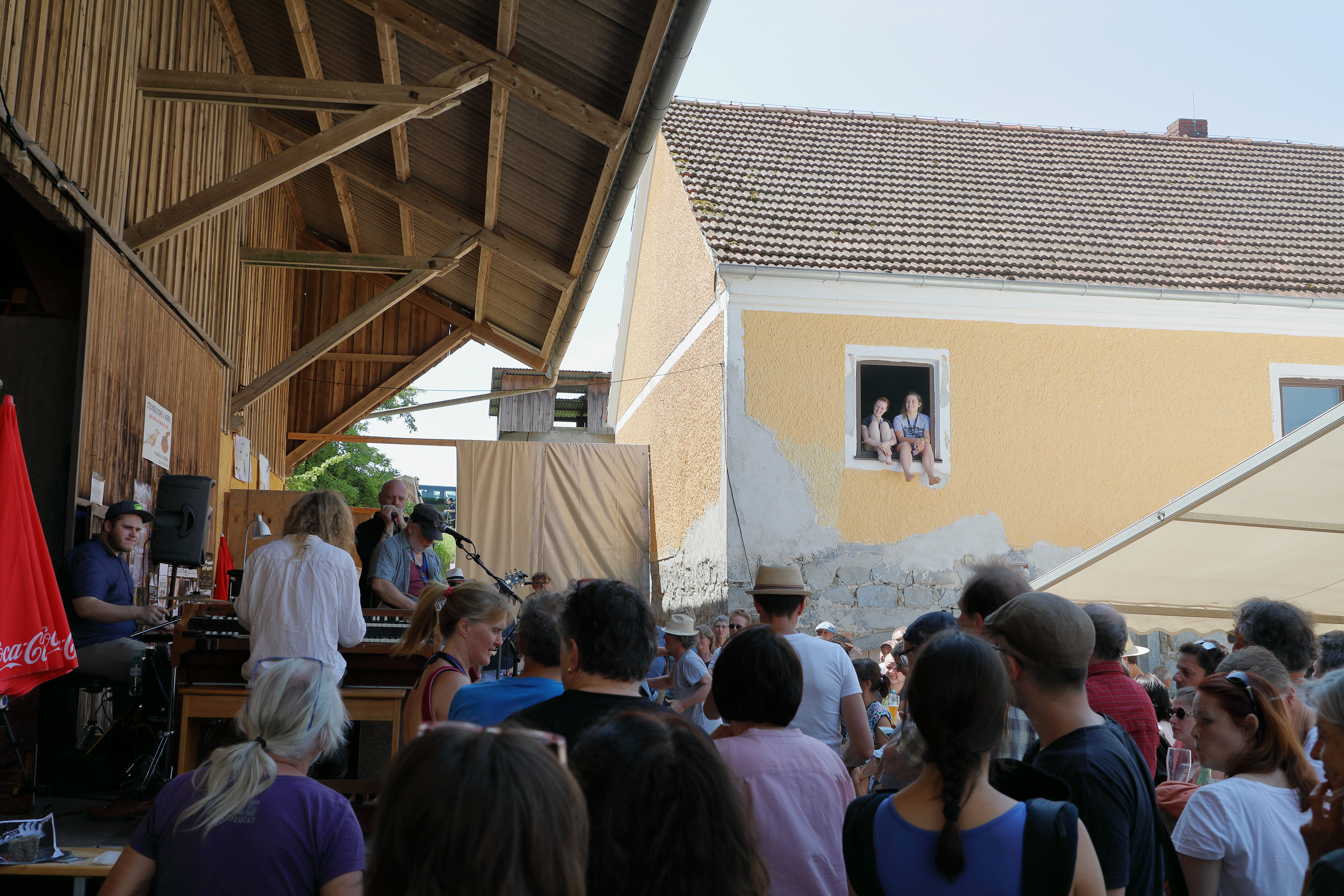 The Southern Brothers Band playing at INNtöne Jazzfestival 2019 for the morning pint.